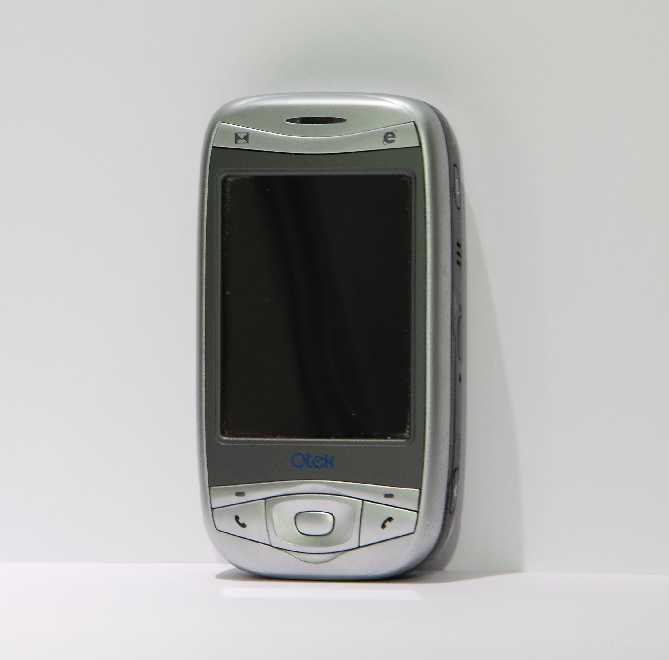 Qtek 9100/HTC Wizard smartphone